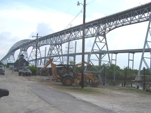 Looking at Rainbow Bridge on its northwest side in Port Arthur, Jefferson County, TX.